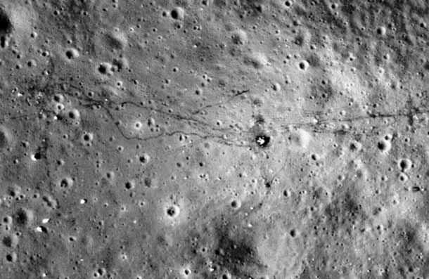 Lunar Reconnaissance Orbiter Camera (LROC, NASA) which was able to detect from its lowest orbit the Apollo landing sites and tracks left by astronauts